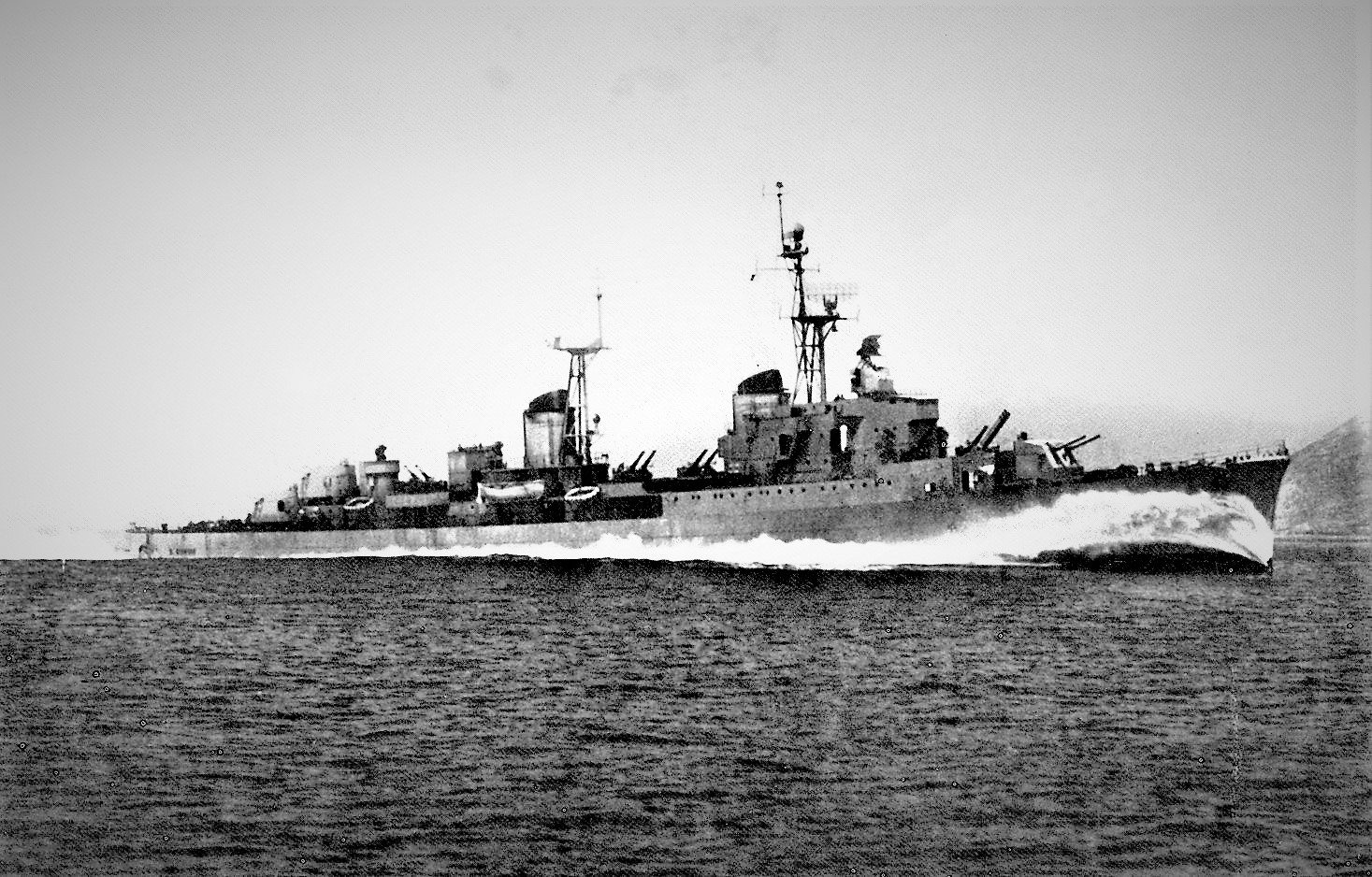 The destroyer San Giorgio (D 562) during the sea trials after reconstruction